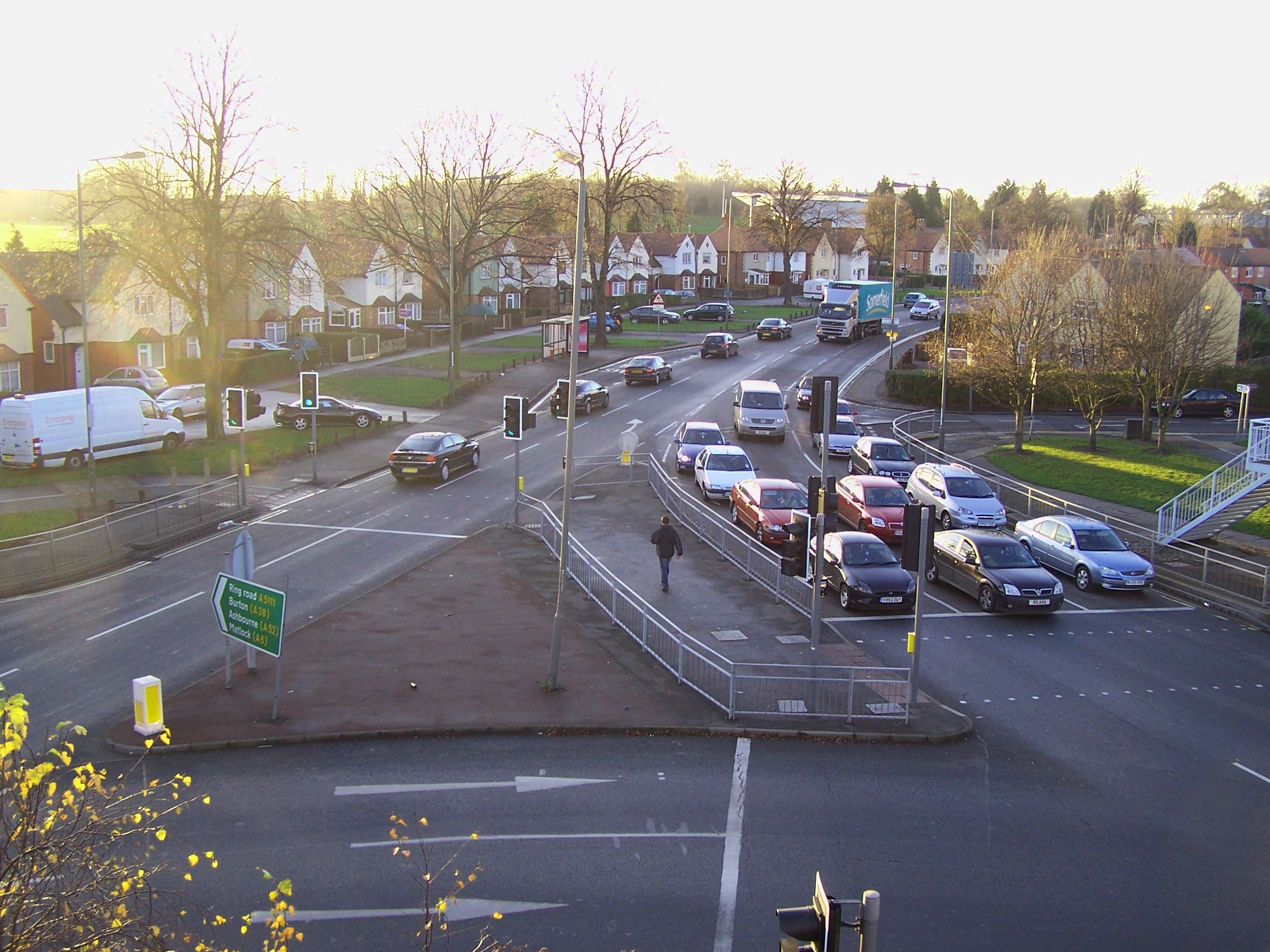 Spider Island Allenton looking west near Osmaston